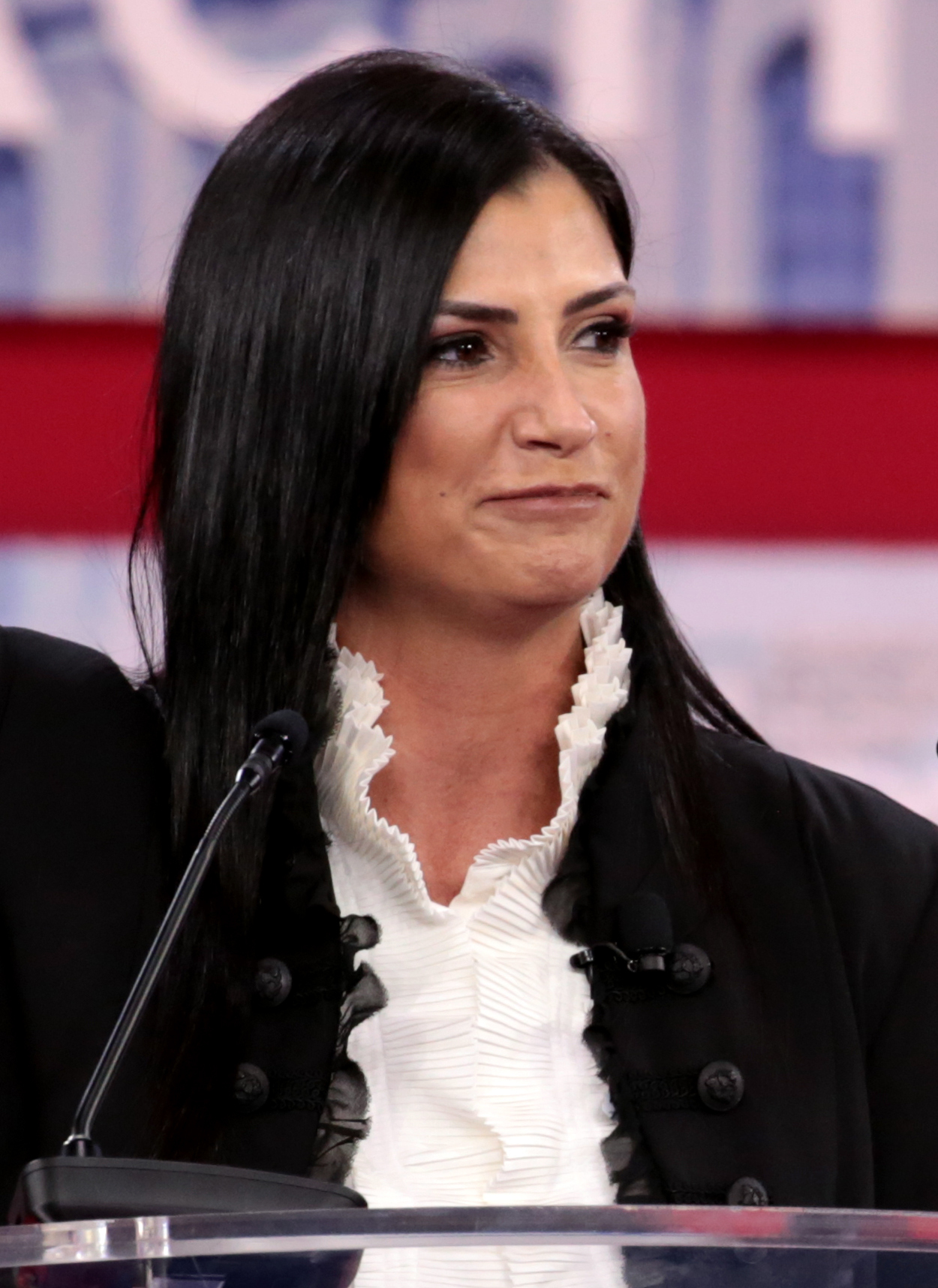 Dana Loesch speaking at the 2018 Conservative Political Action Conference (CPAC) in National Harbor, Maryland.